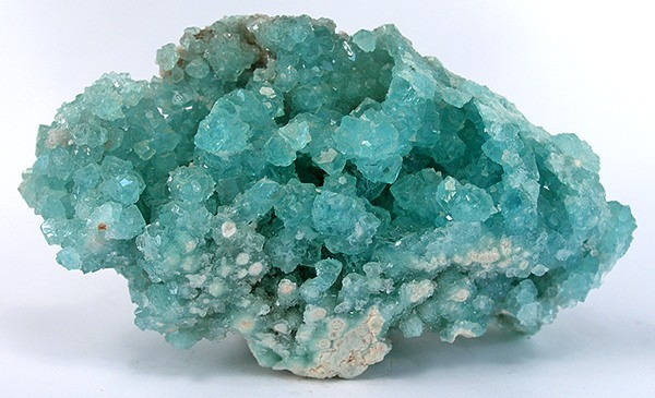 Boracite Locality: Boulby Mine, Loftus, North Yorkshire, England, UK (Locality at ) Size: 6.6 x 3.7 x 3.1 cm A SUPERB and AESTHETIC 3-dimensional, vuggy cluster of very gemmy, sharp, lustrous, sea-green boracite crystals from the famous Boulby Mine of England. Boracite is a rare borate and this is a very rich and fine, older specimen for the species and classic locality. Boracite crystals richly cover the back, also. Ex. Scott Williams and Lindsay Greenbank Collections. Aside from the pedigree, though, it has color and lustre which speak for itself. These came out in the early 1990s.